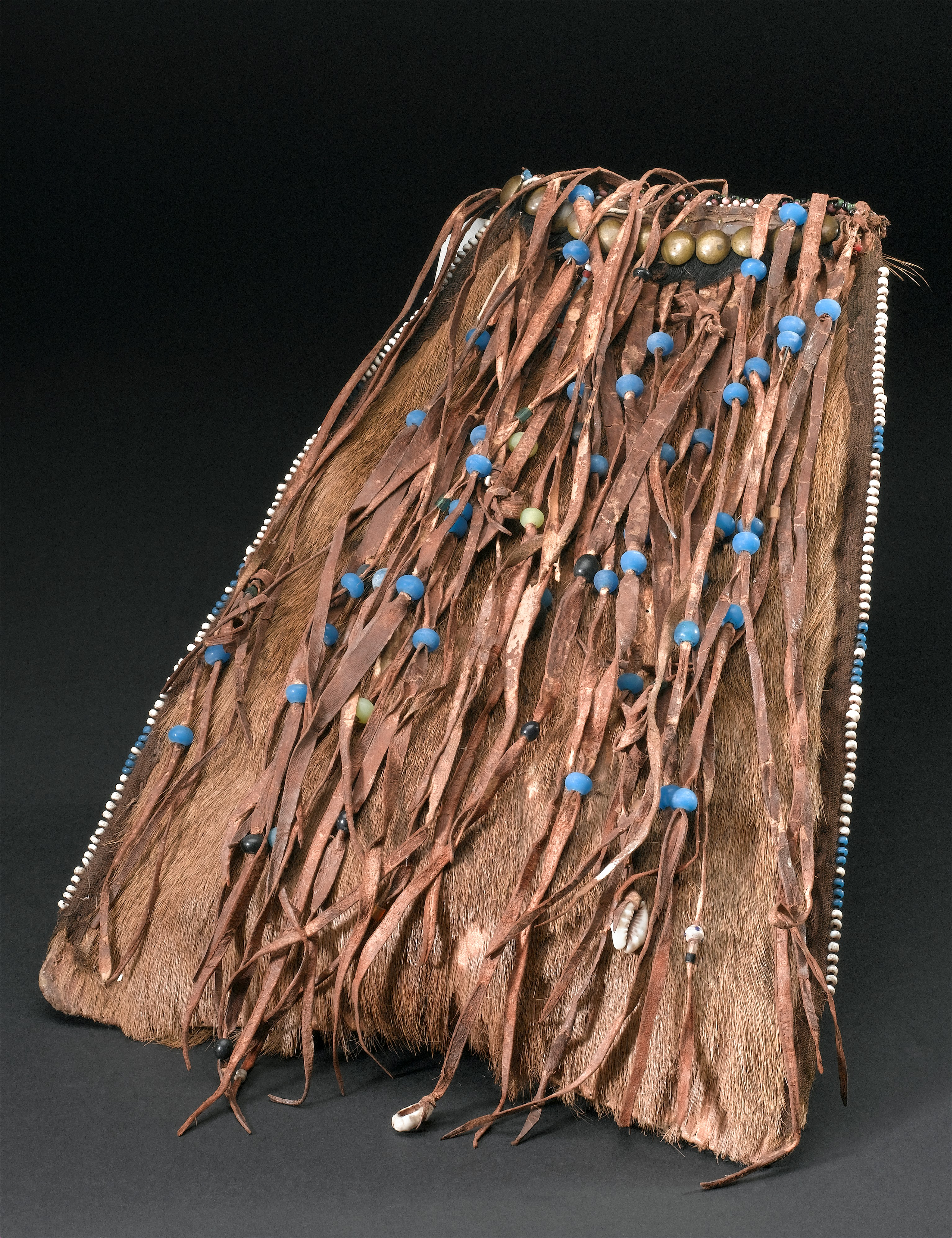 Clothes worn and items carried by healers identify them and show their high status in many African communities. There are three ways to become a healer: receive the vocation from ancestors, learn skills passed through generations, or learn from another healer if they consider you worthy. maker: Unknown maker Place made: Africa Wellcome Images Keywords: bag - container